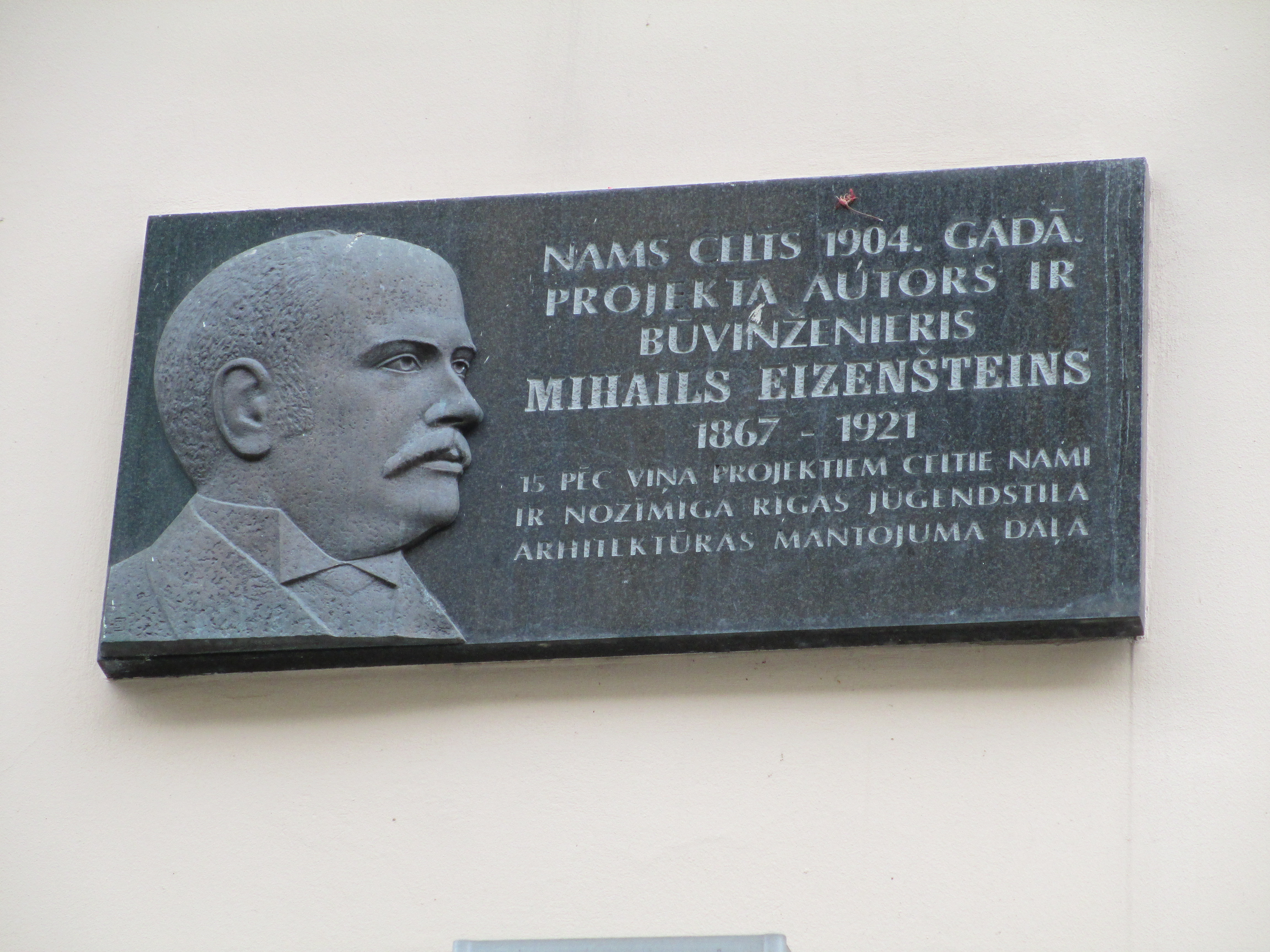 memorial plaque to the architect mikhail eisenstein in alberta str., riga